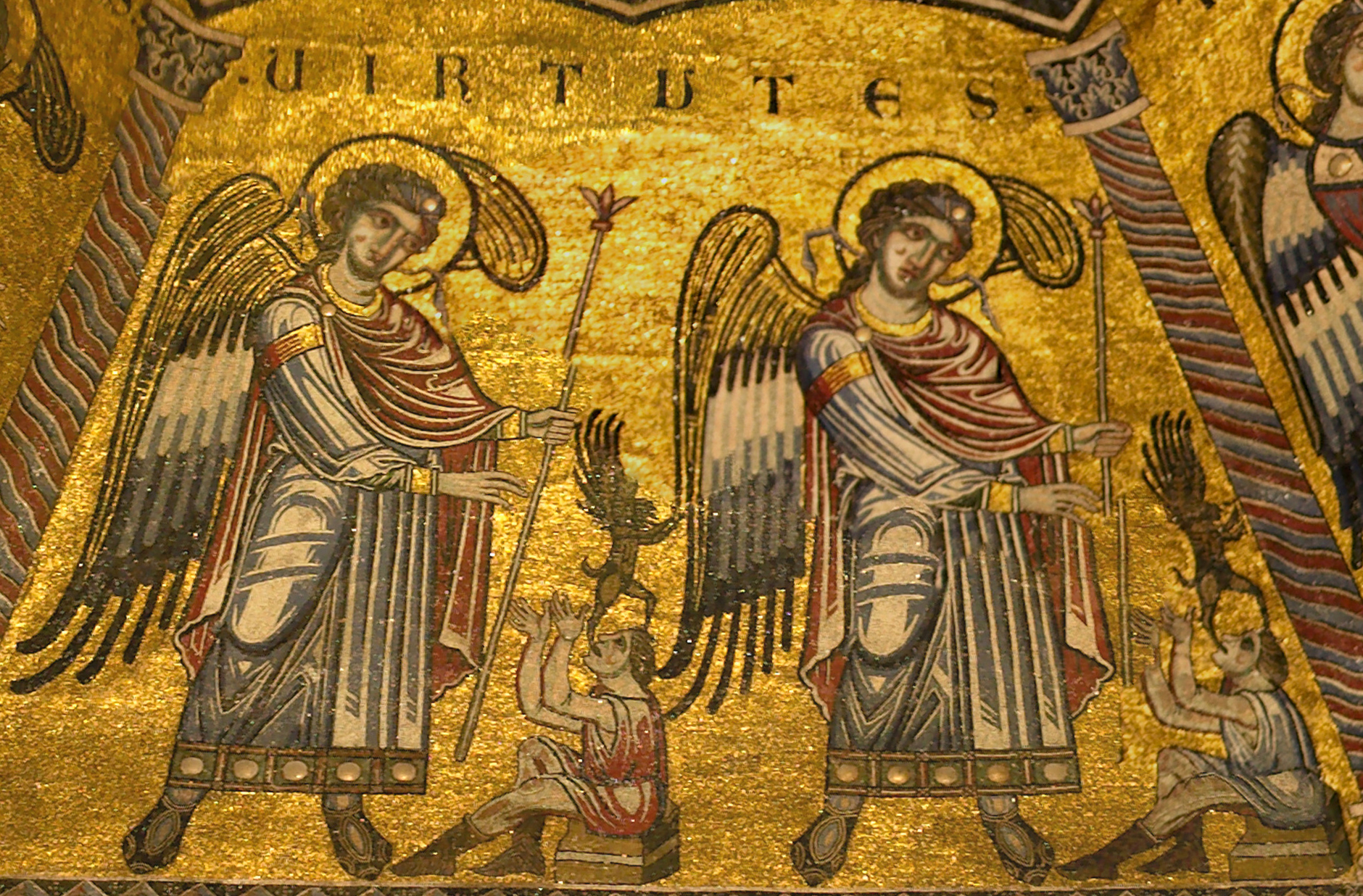 The mosaic ceiling of the Baptistery San Giovanni in Florece in total view (Stitched from 20 images, exif from one image)